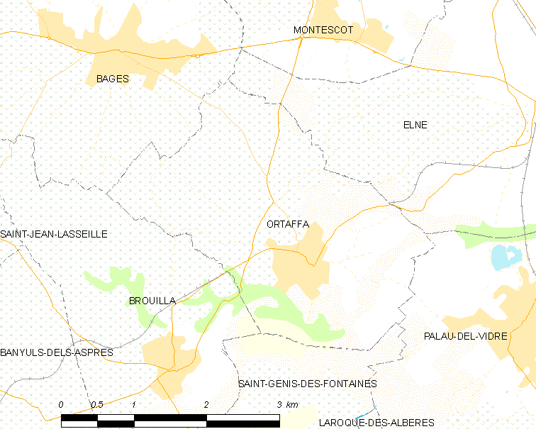 Map of French municipality